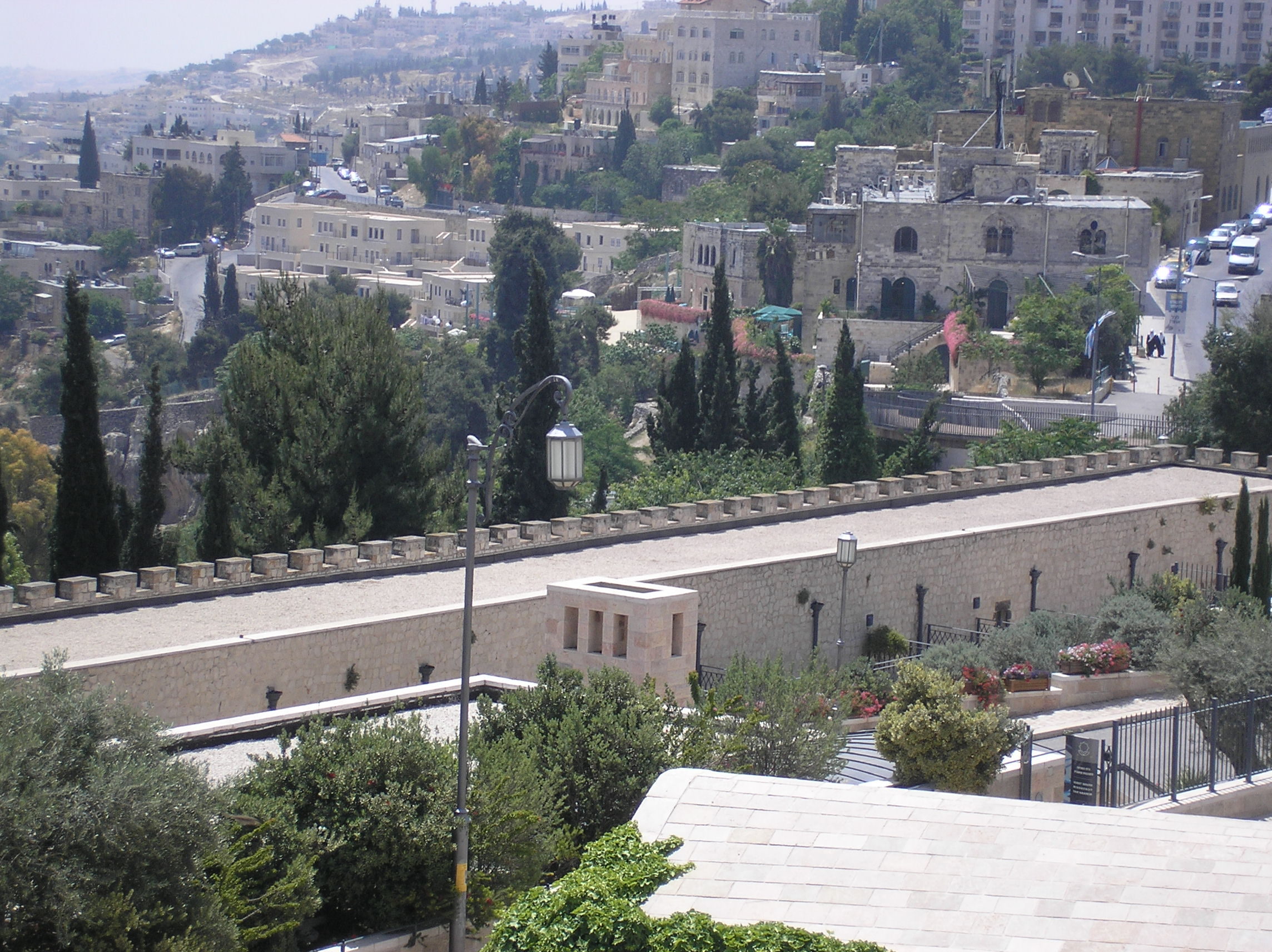 Mishkenot Sha'ananim - the Long House